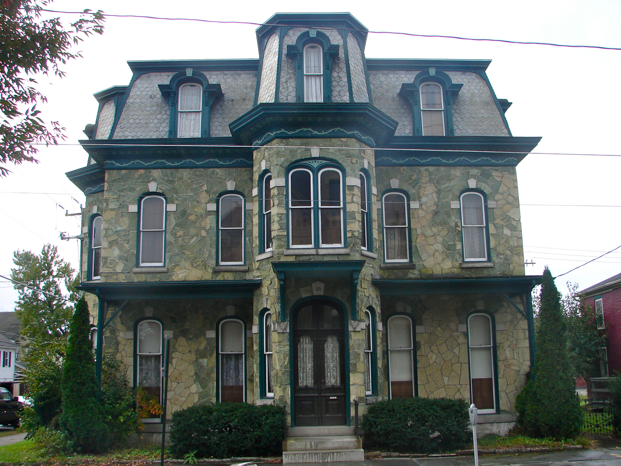 Danville Historic District on the NRHP since August 18, 1994. The HD is roughly bounded by Bloom Street, Cedar Street, the Susquehanna River, and Chestnut Street, in Danville, Montour County, Pennsylvania. This house at 20 East Market Street is right across the street from the Beaver Library, which is separately listed on the NRHP. The house definitely has a green tint from the stones used, though the replacement stones are not green.